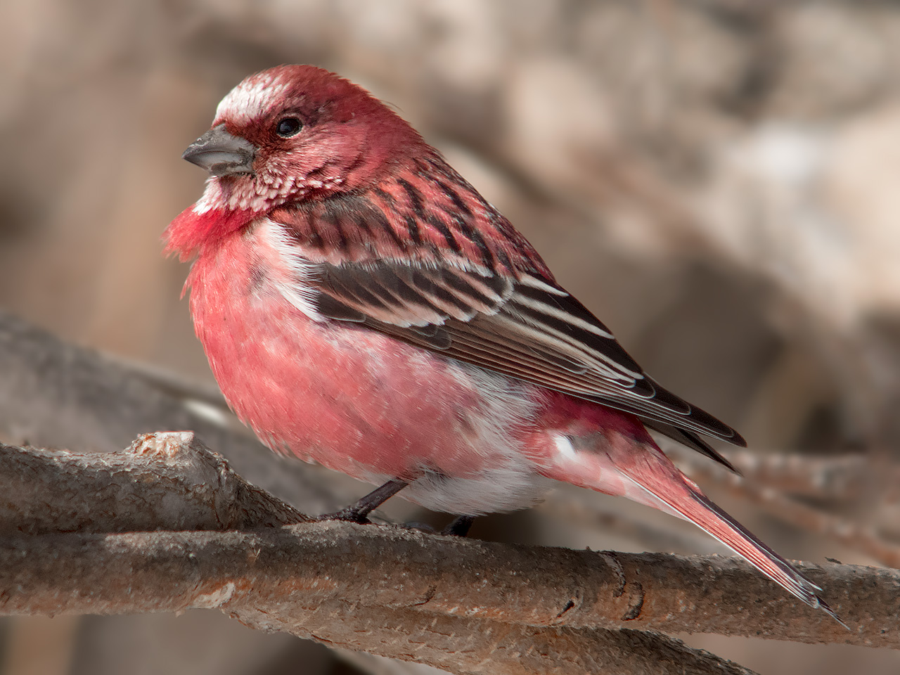 Pallas's Rosefinch Carpodacus roseus, Hokkaido